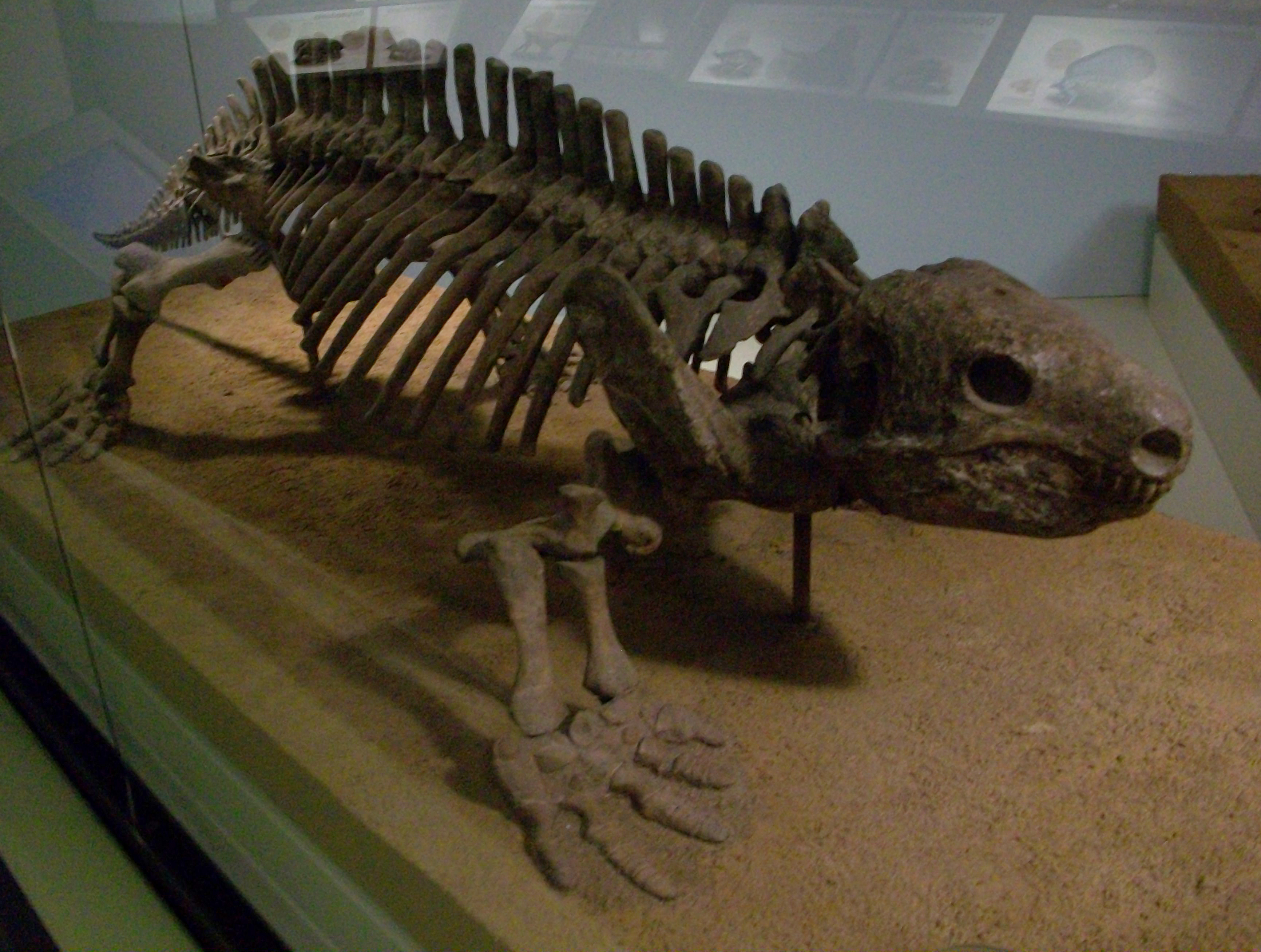 Skeleton of Diasparactus zenos in the Field Museum of Natural History.